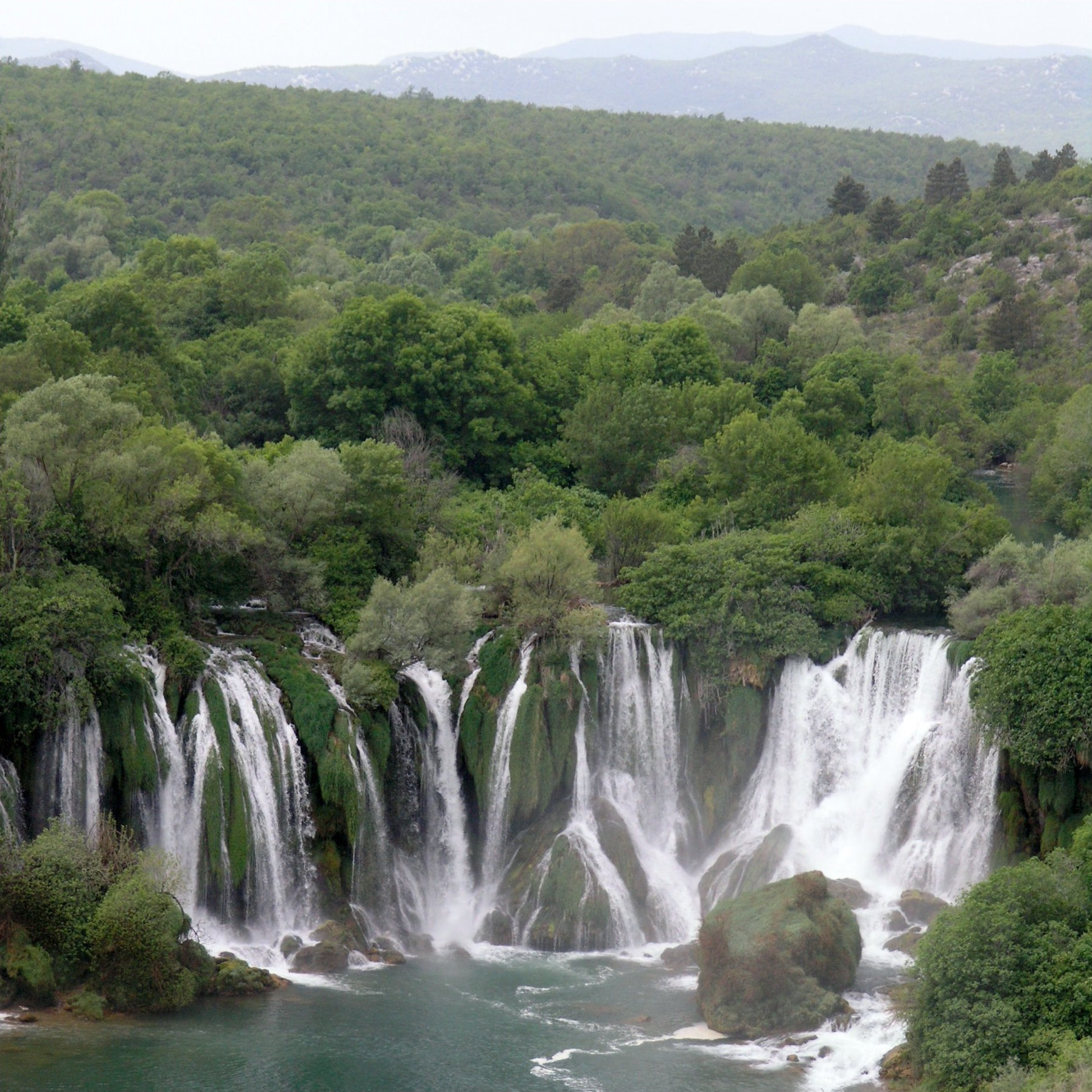 Bosnia and Herzegovina - Kravica Waterfalls